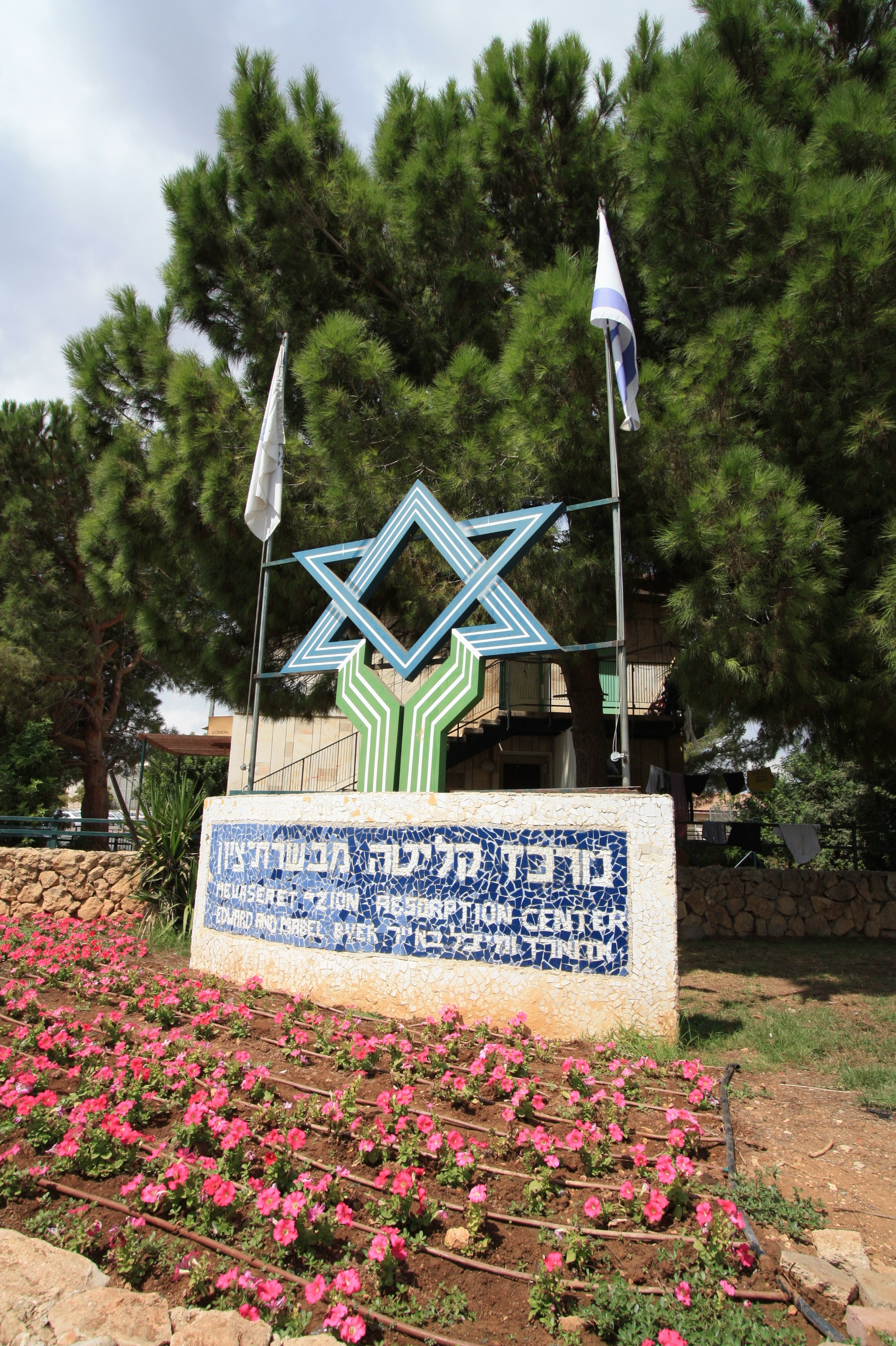 The entrance to the immigration center in Mevaseret Zion